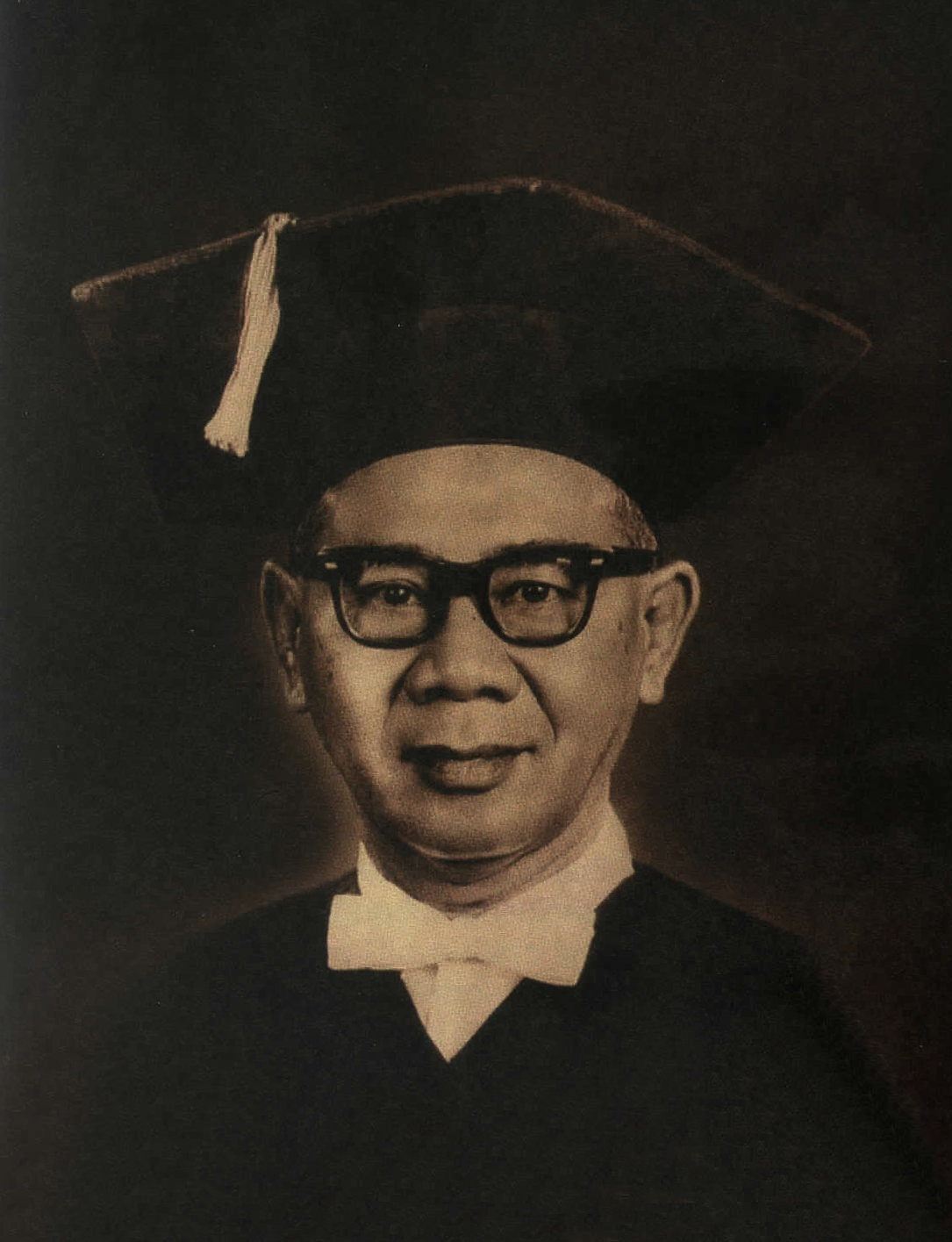 Prof Soediman